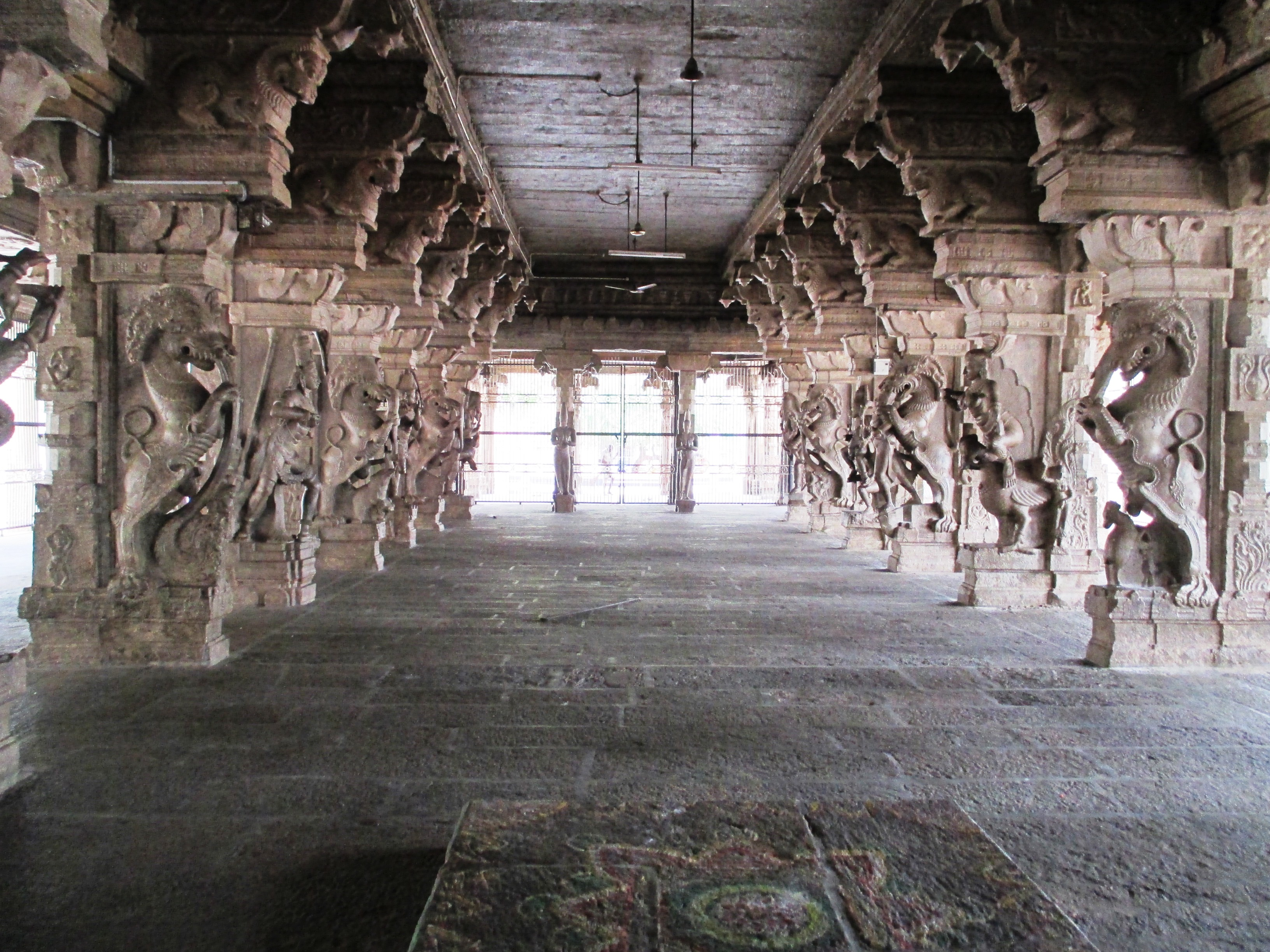 Alagar Koyil